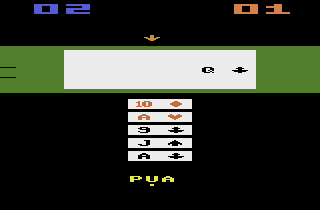 Screenshot from the Atari 2600 game Euchre (aka Video Euchre) by Erik Eid